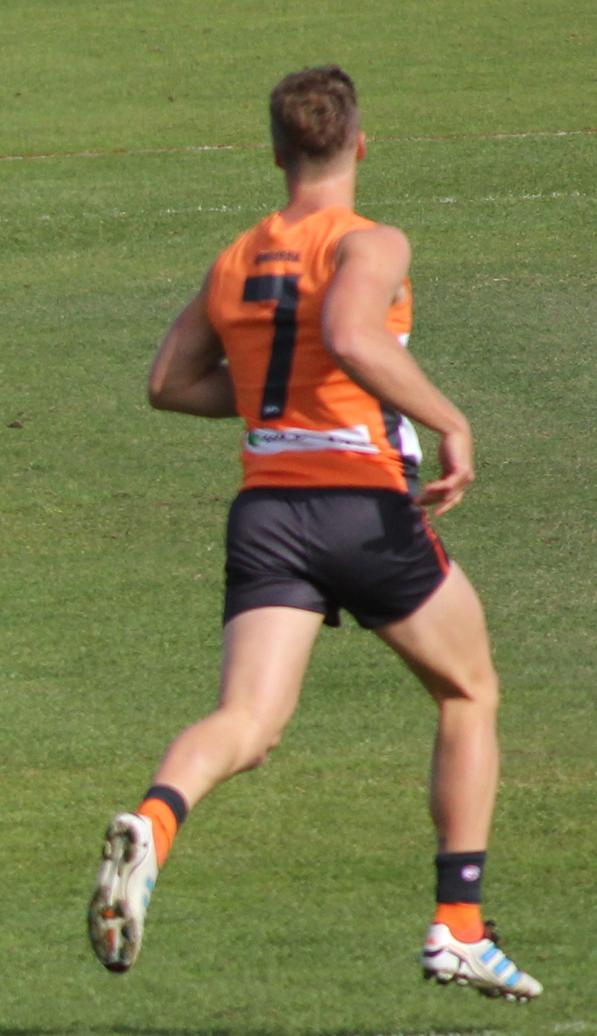 2012 Round 7. GWS Giants vs Gold Coast Suns. Manuka Oval.